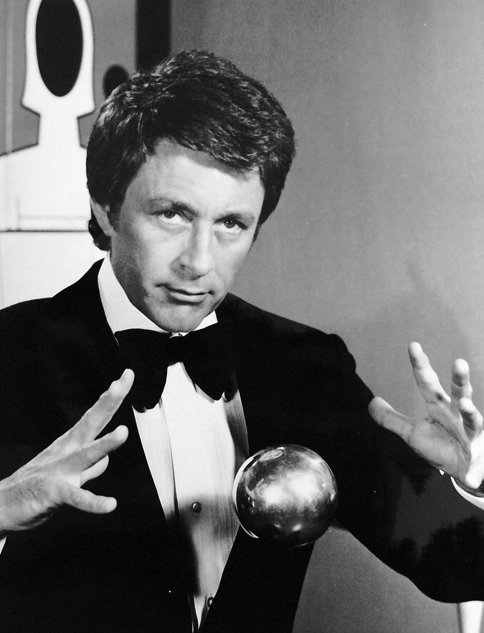 Photo of Bill Bixby as Tony Blake from the television program The Magician.